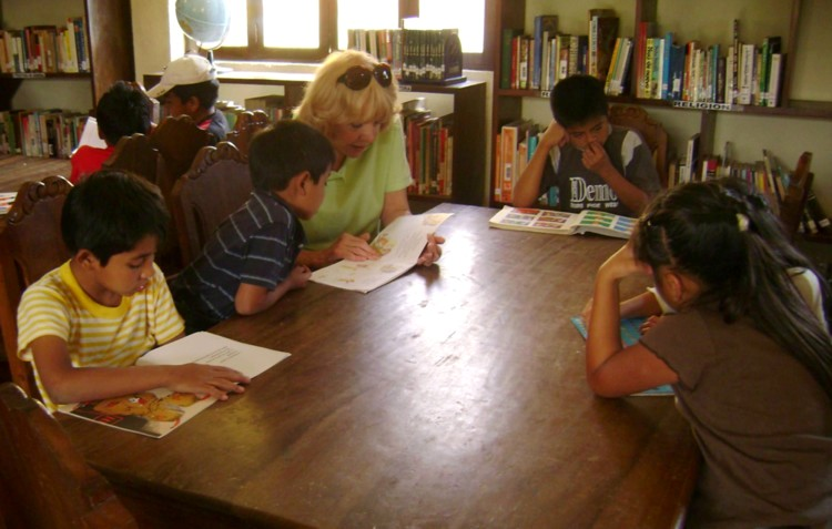 Volunteer of the Open Windows Fundation reading to kids in the library room